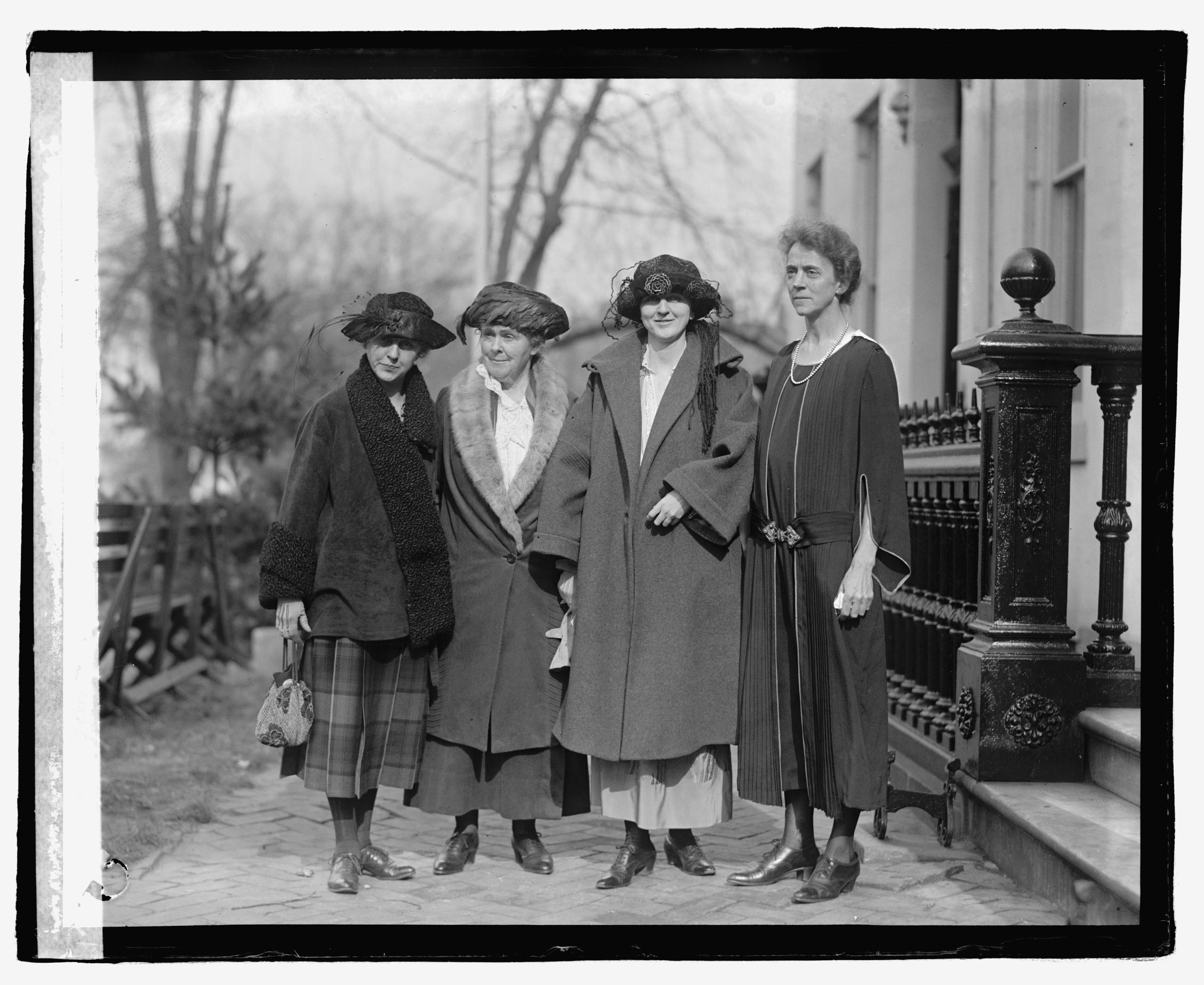 Title: Far Western delegates to Woman's Party conference. L to R: Miss Emma Wold, Portland, Oregon; Mrs. Wm. Kent, San Francisco, Cal.; Mrs Lucille Shields, Amarillo, Tex.; Miss Sybil Moore, Seattle, Wash., [11/11/22] Abstract/medium: National Photo Company Collection (Library of Congress) Physical description: 1 negative